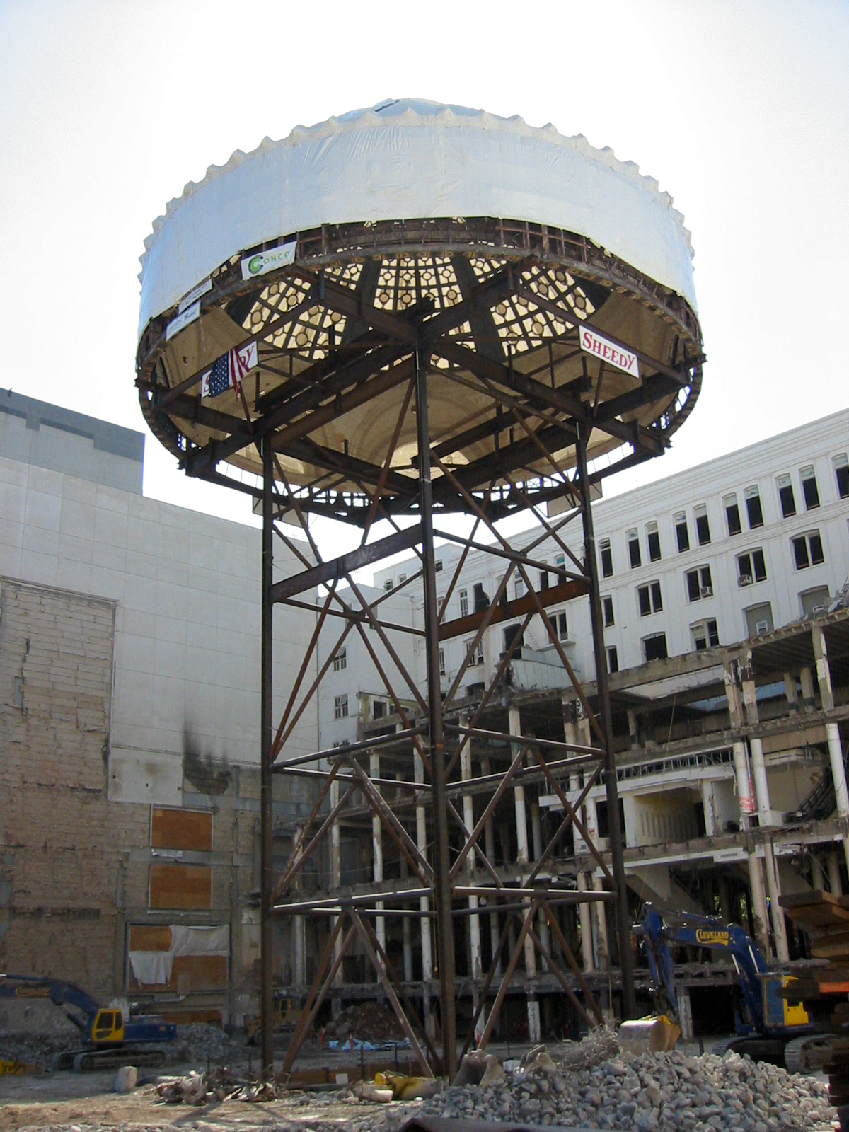 The preserved glass dome element from the historic Emporium Department Store in downtown San Francisco. The store was razed to the ground in 2003, and a new Westfield San Francisco Centre was built in its place. The only two architectural elements preserved were the front Market Street facade and the glass dome.